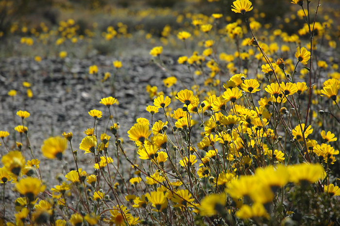 Beautiful flowers of Brittlebush (Encelia farinosa) — in Joshua Tree National Park, California